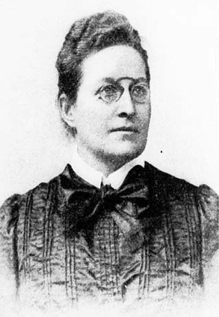 The International Women's Congress in Berlin. Miss Anna Pappritz, deputy chairman of the Local Committee